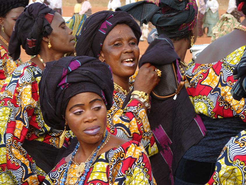 Women dancing during Adossa-Kosso, Sokodé